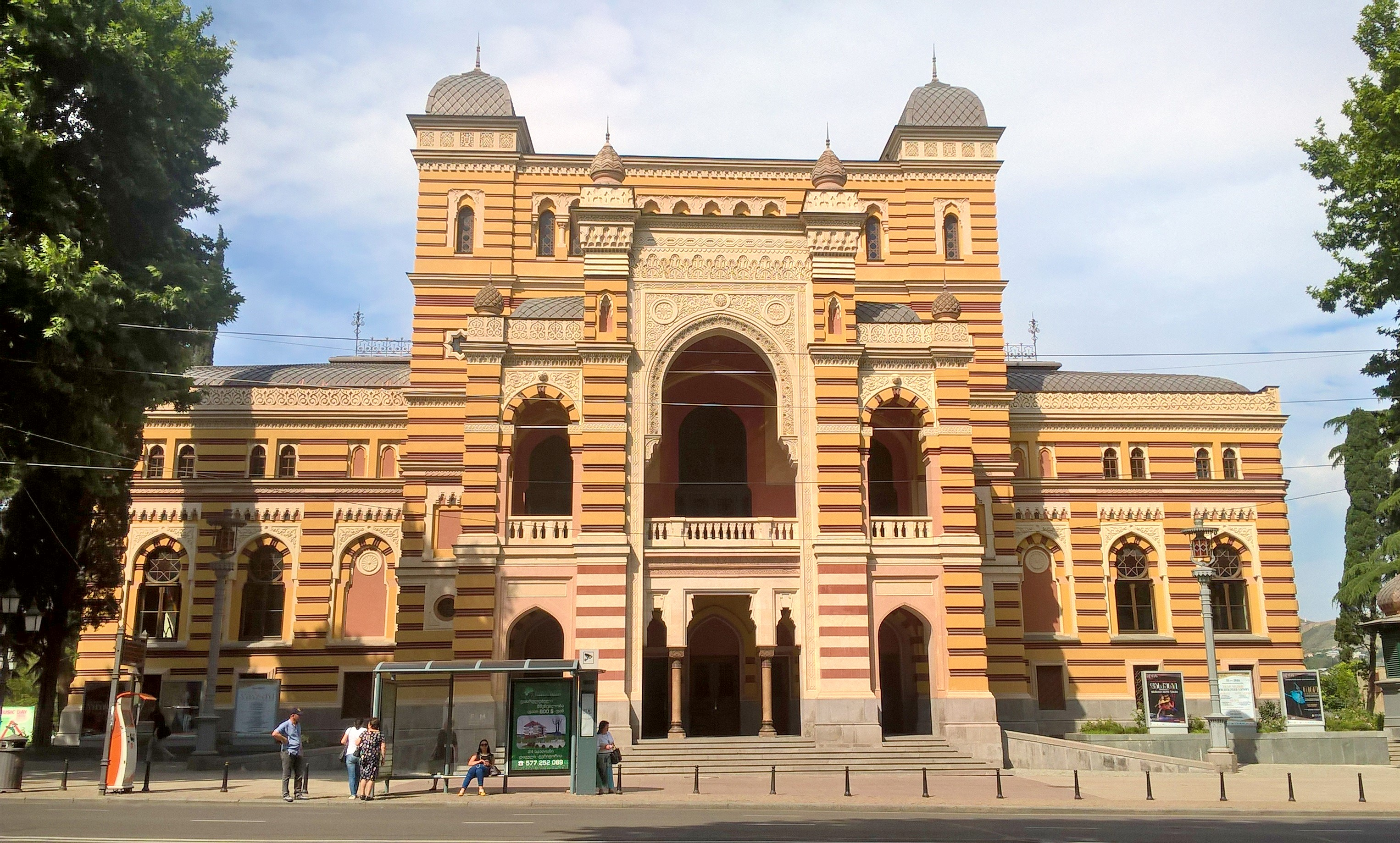 Georgian National Opera Theater